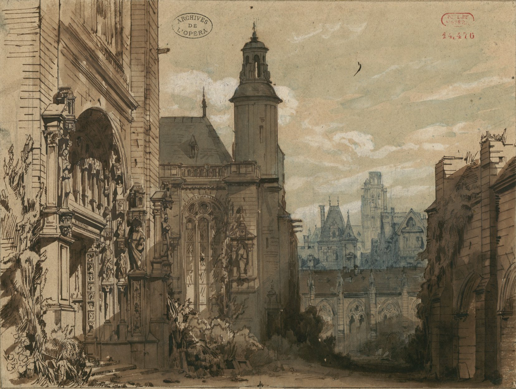 Les Huguenots: sketch of the opera set for the third act (1838)